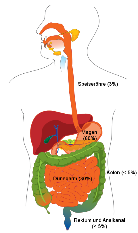 Epidemiology: Localisation of gastrointestinal stromal tumors throughout the gastrointestinal tract.